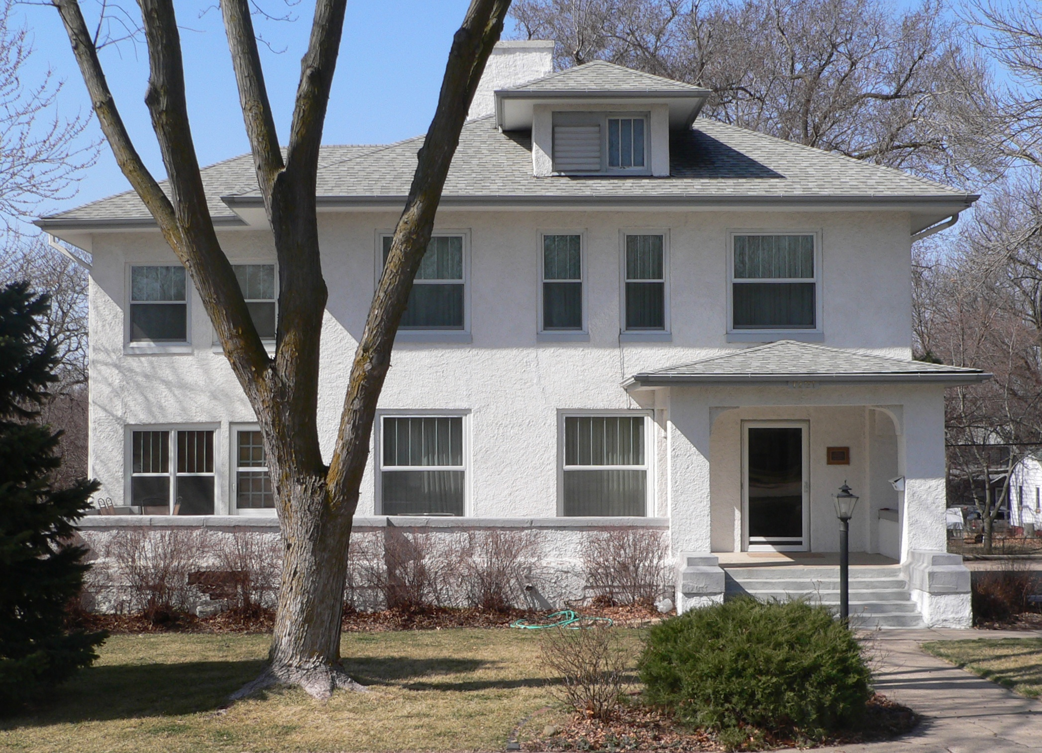 Rachel Kilpatrick Purdy house, located at 1201 N. 11th Street in Beatrice, Nebraska; seen from the east, across 11th.